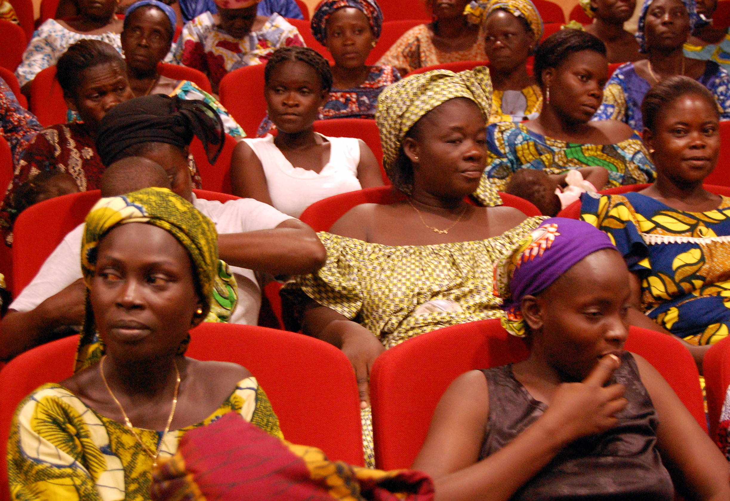 Women in Cotonou, Benin